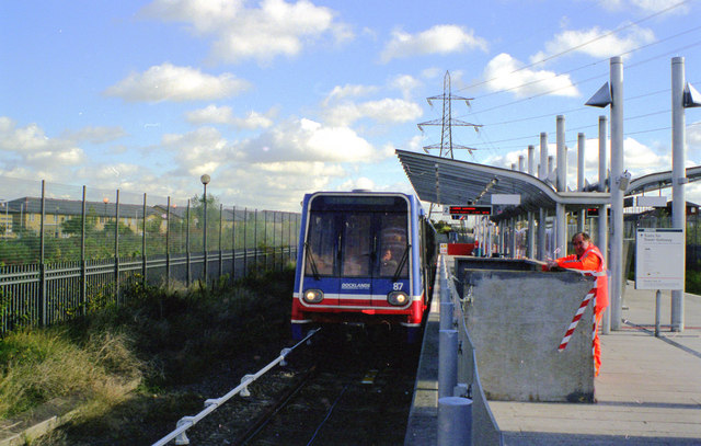 Docklands Light Railway, Beckton Car No 87, of class B92, is seen at the Beckton terminus